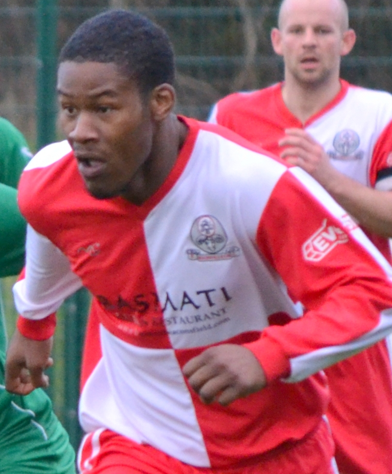 Kofi Lockhart-Adams, Beaconsfield SYCOB, 2015. Match 14 March 2015, Bedworth United F.C. against Beaconsfield SYCOB F.C.